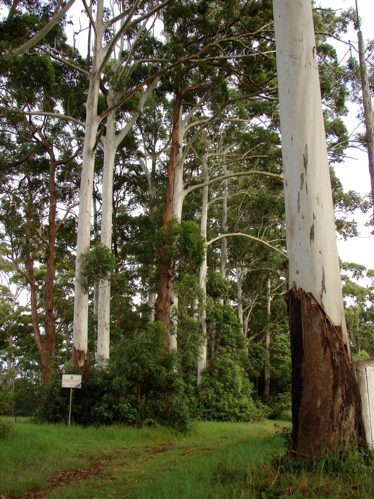 Eucalyptus grandis Flooded Gum (Eucalypt) Magnifisent sright tree to 50m Trunk white and smooth; fibrous-flaky bark persistent on lower trunk, shedding in ribbons. Fast growing and great timber producer. Native: New South Wales, Queensland Australia Location: Tamborine national park, QLD, Australia See where this picture was taken. ?